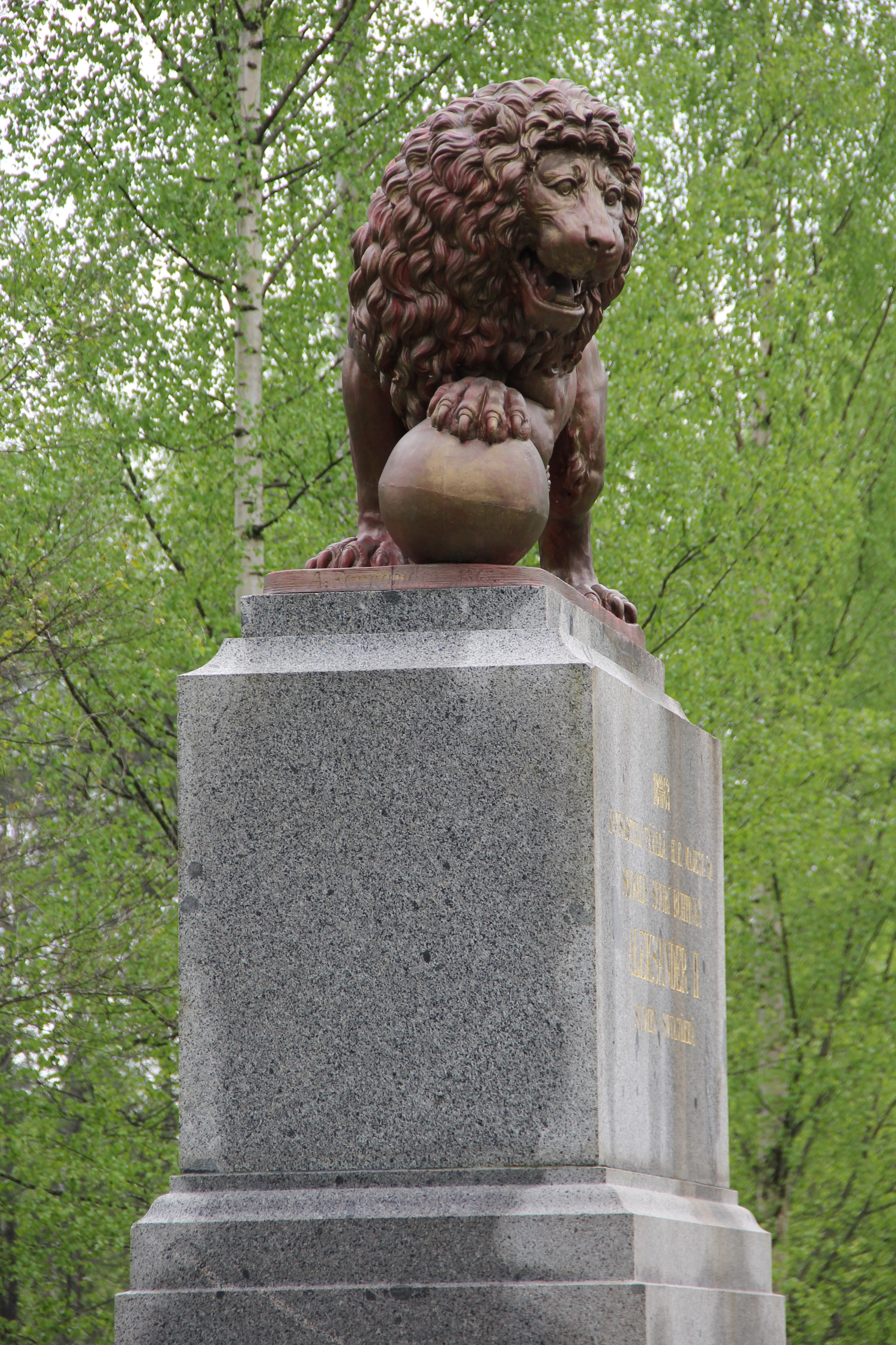 Parolan Leijona (The Parola Lion), Hattula, Finland. - A statue by Andreas Fornander, unveiled in 1868.